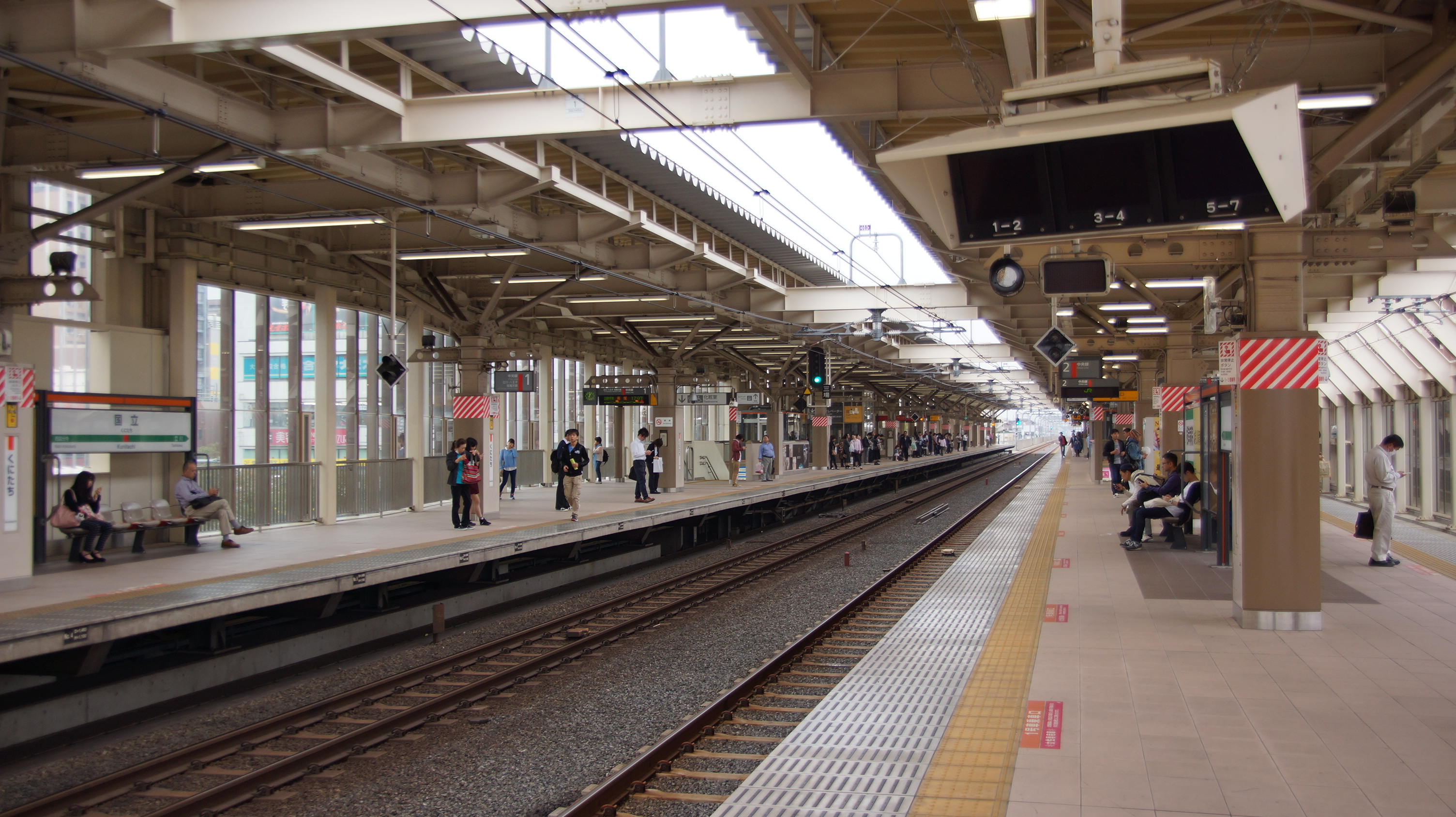 The platforms at Kunitachi Station on the Chuo Line, looking west from the east (Shinjuku) end of platforms 2 and 3